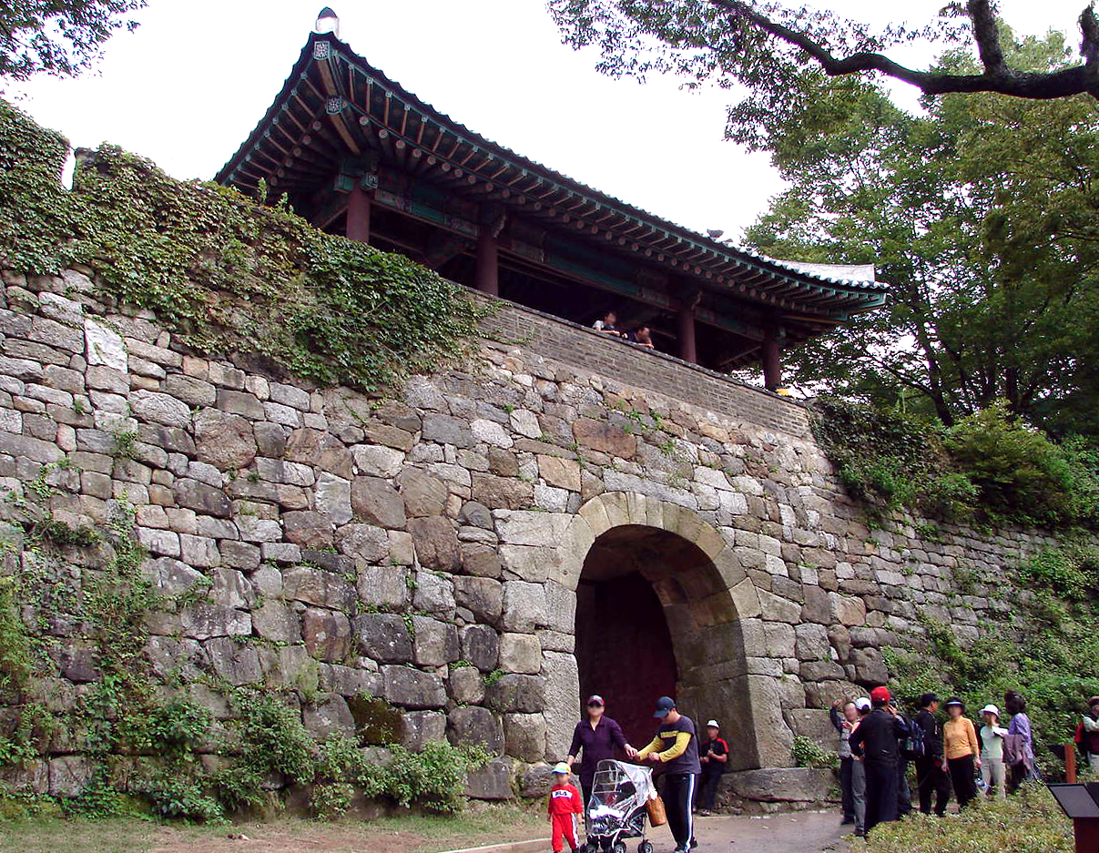 Namhan Sanseong South Gate